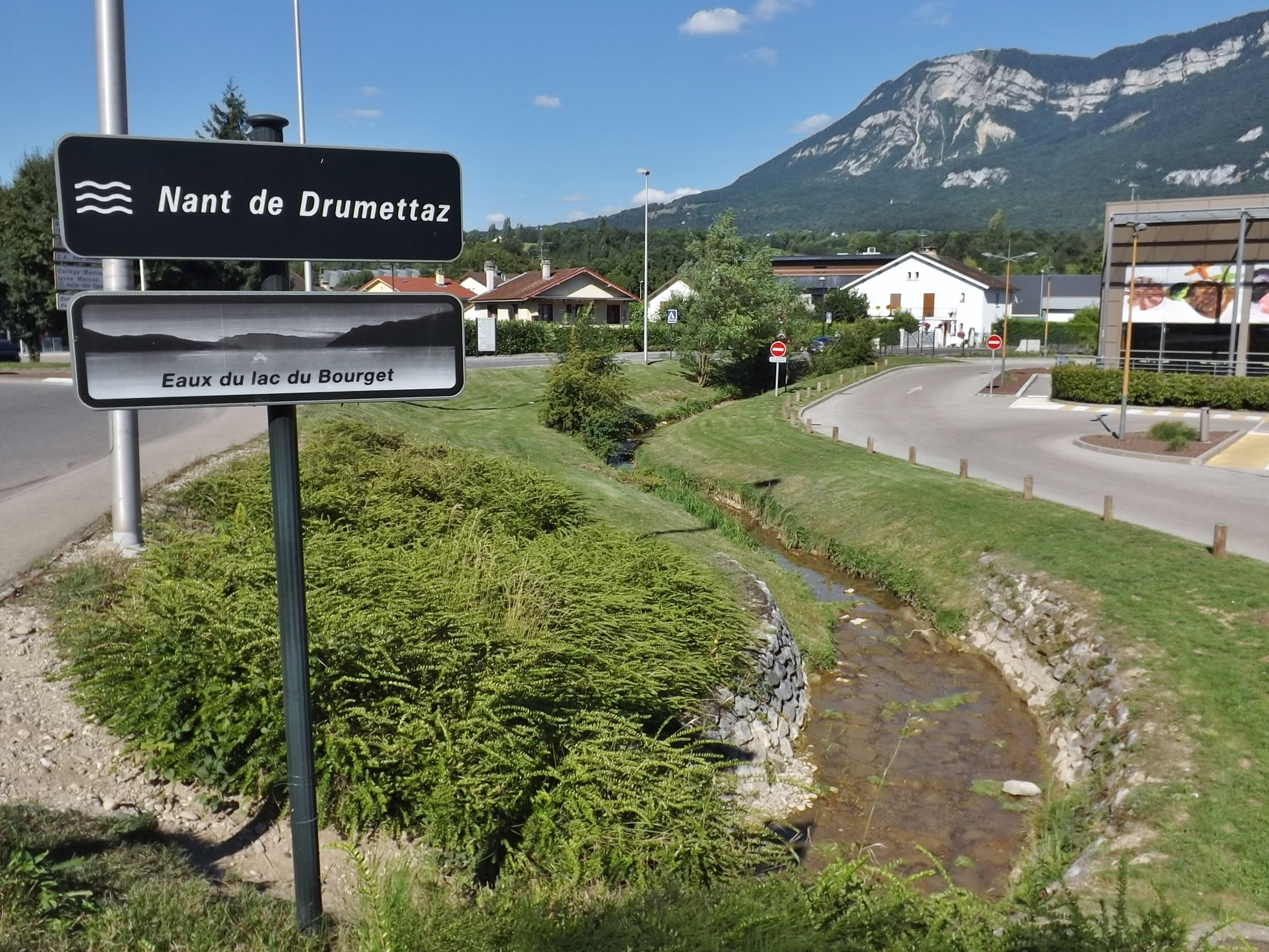 Sight of the Nant de Drumettaz stream in summer, with its roadsign mentioning it, in Drumettaz-Clarafond in the direction of Aix-les-Bains, in Savoie, France.